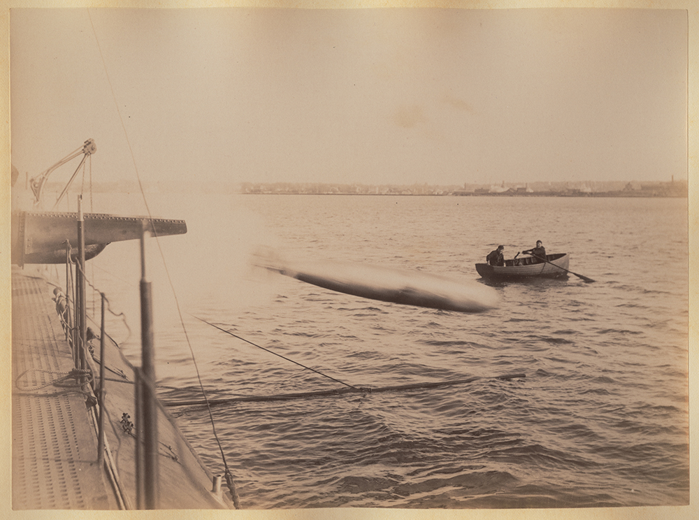 Title: U.S.S. Cushing torpedo boat experiments, ca. 1890, DeGolyer Library, SMU. Part Of: George Albert Converse papers and photographs, 1861-1897 Place: Newport, R. I. Description: This photograph is one of eight images showing the Cushing torpedo boat experiments. Physical Description: 1 photographic print: 14.6 x 19.9 cm. on 21.0 x 27.2 cm. mount File Name: mss68_2_1_2_cushings_opt.jpg Rights: Please cite Southern Methodist University, Central University Libraries, DeGolyer Library when using this image file. A high-quality version of this file may be obtained for a fee by contacting . For more information and to view the image in high resolution, View George Albert Converse papers and photographs, 1861-1897 at